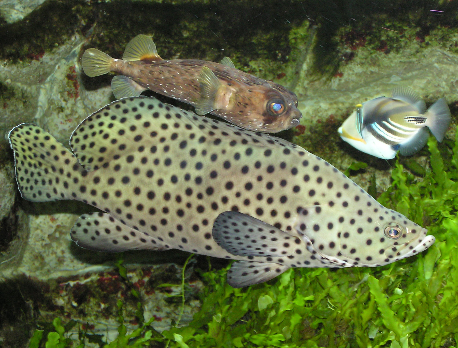 Panther grouper (Cromileptes altrivelis) at Bristol Zoo, Bristol, England. At the top is a Porcupine pufferfish and on the right a Picasso triggerfish. Photographed by Adrian Pingstone in December 2005 and released to the public domain.